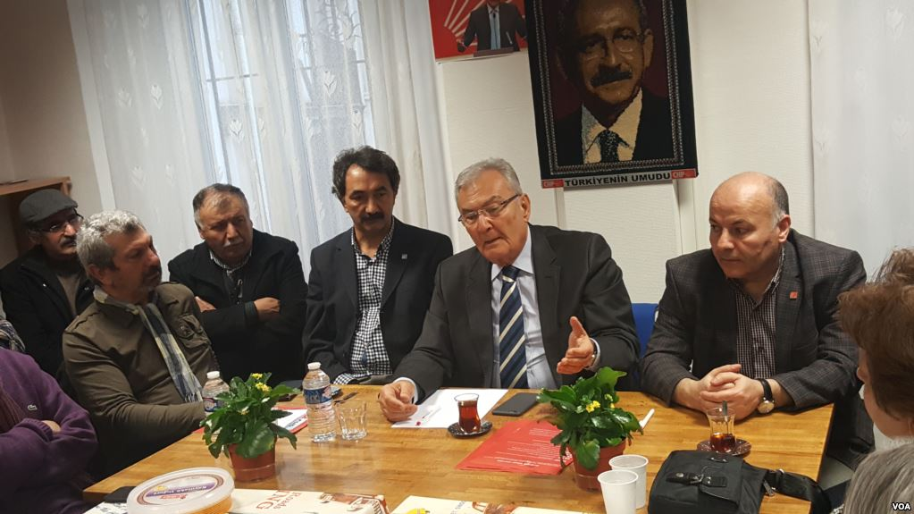 Former CHP leader and current MP Deniz Baykal campaigning in France for a 'No' vote for the 2017 constitutional referendum